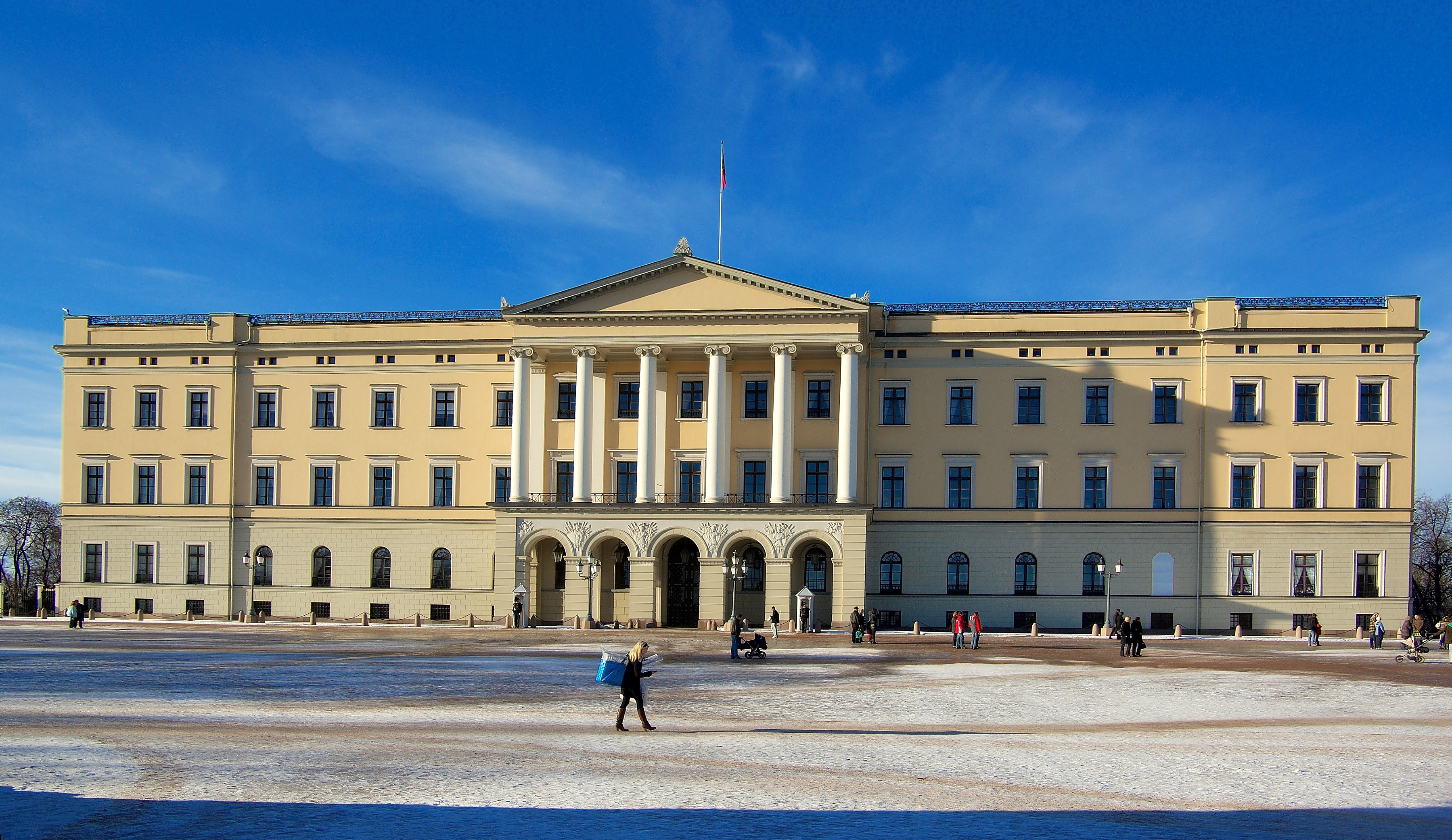 King's castle, Oslo, Norway.